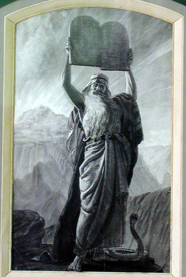 Kornilo Ustianovich